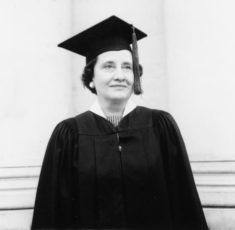 Image Title: Mercedes Bates Image Description: Mercedes Bates at the Alumni Centennial Awards. Date.Original: 1969 Original Form: Gelatin silver prints Original Collection: Alumni Association Item Number: P017:6941 Restrictions: Permission to use must be obtained from the OSU Archives. Transmission Data: Date.Digital: Contributing.Institution: Oregon State University Libraries Click here for further information or a high resolution copy of this image. Click here to view Oregon State University's other digital collections. We're happy for you to share this digital image within the spirit of The Commons; however, certain restrictions on high quality reproductions of the original physical version may apply. To read more about what ?no known restrictions? means, please visit the OSU Archives website.